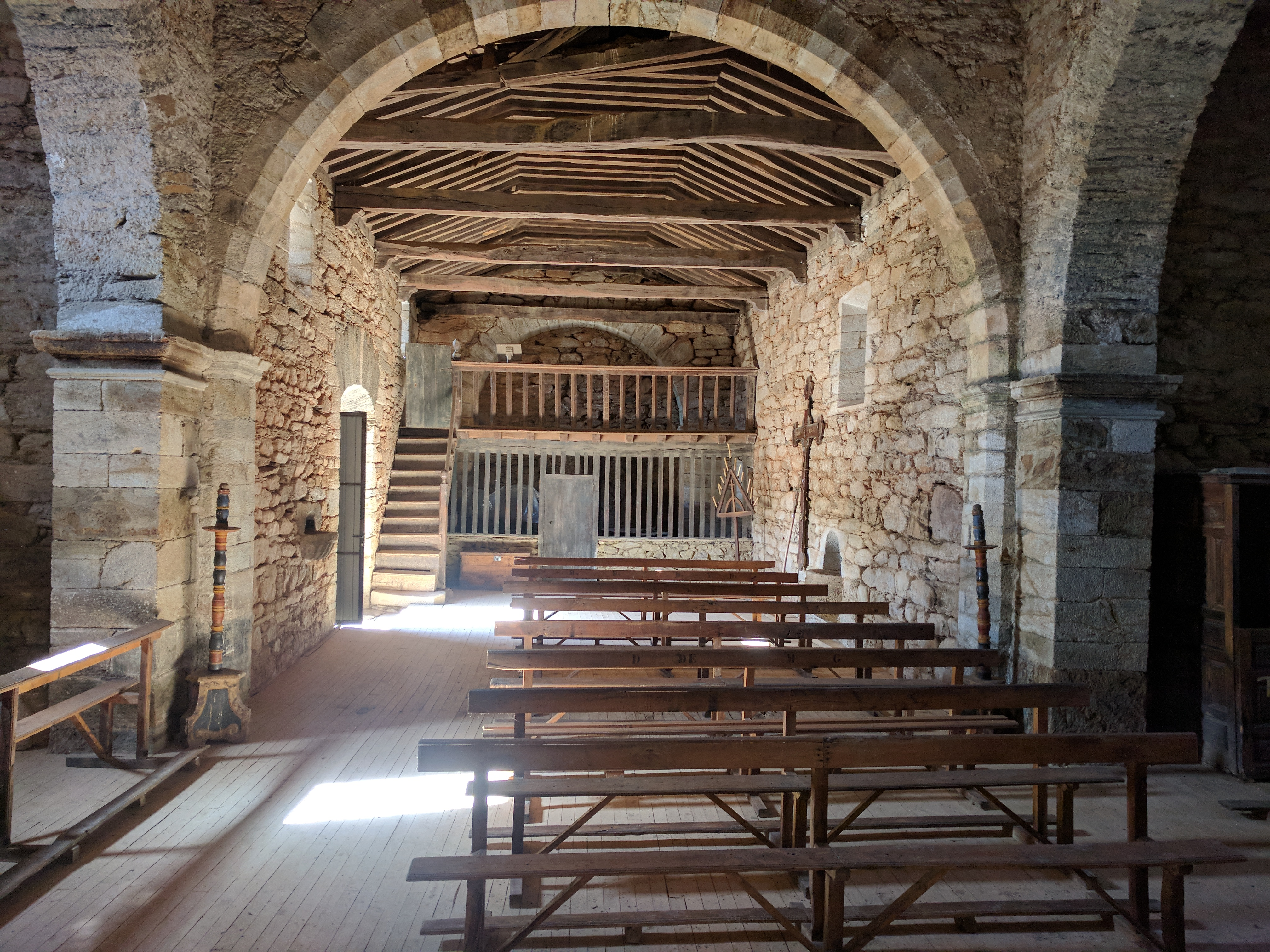 Iglesia de San Martín de Valdavido